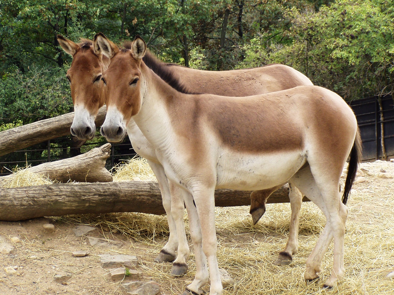 Equus kiang holdereri (Prague Zoo)